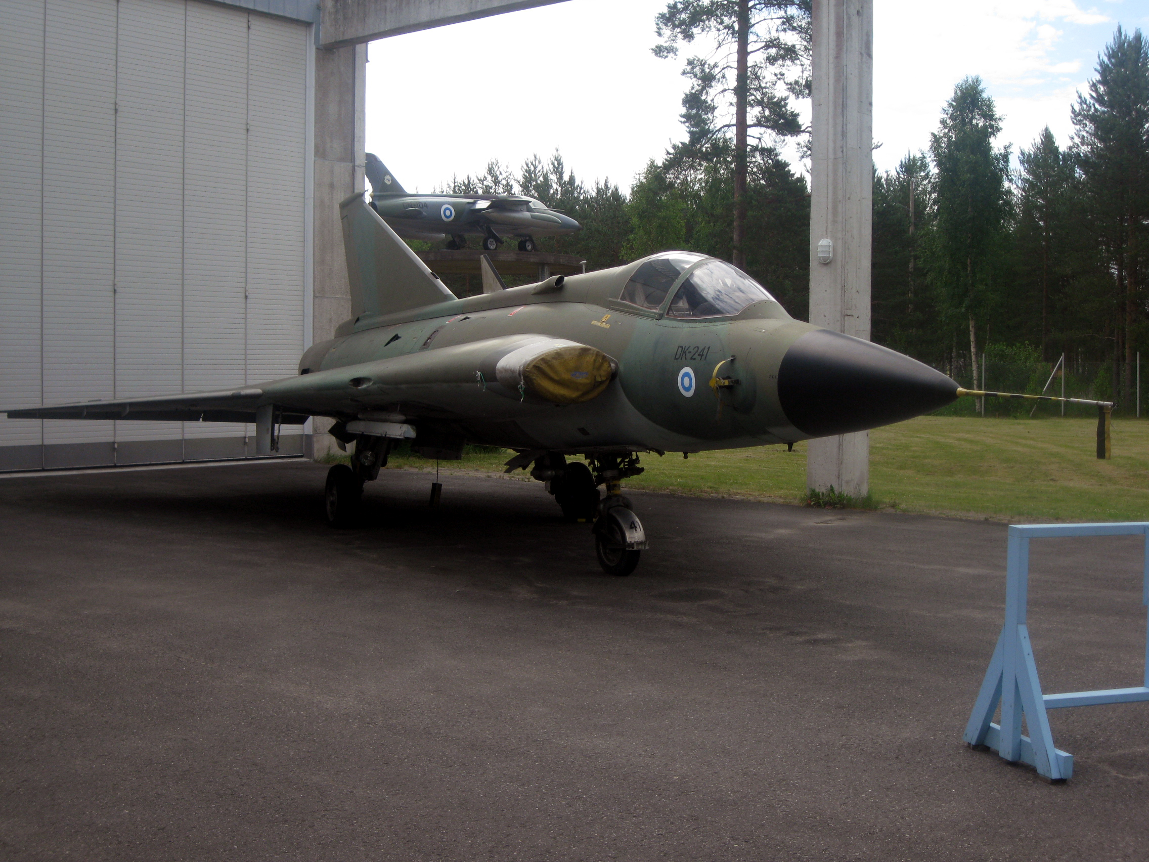 Saab J 35F Draken (DK-241) (S/N 35458) in Aviation Museum of Central Finland.